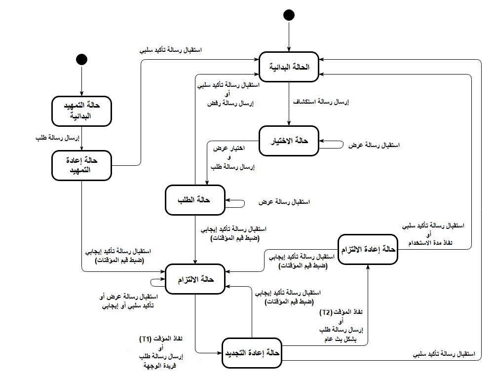 A state diagram for a DHCP client.